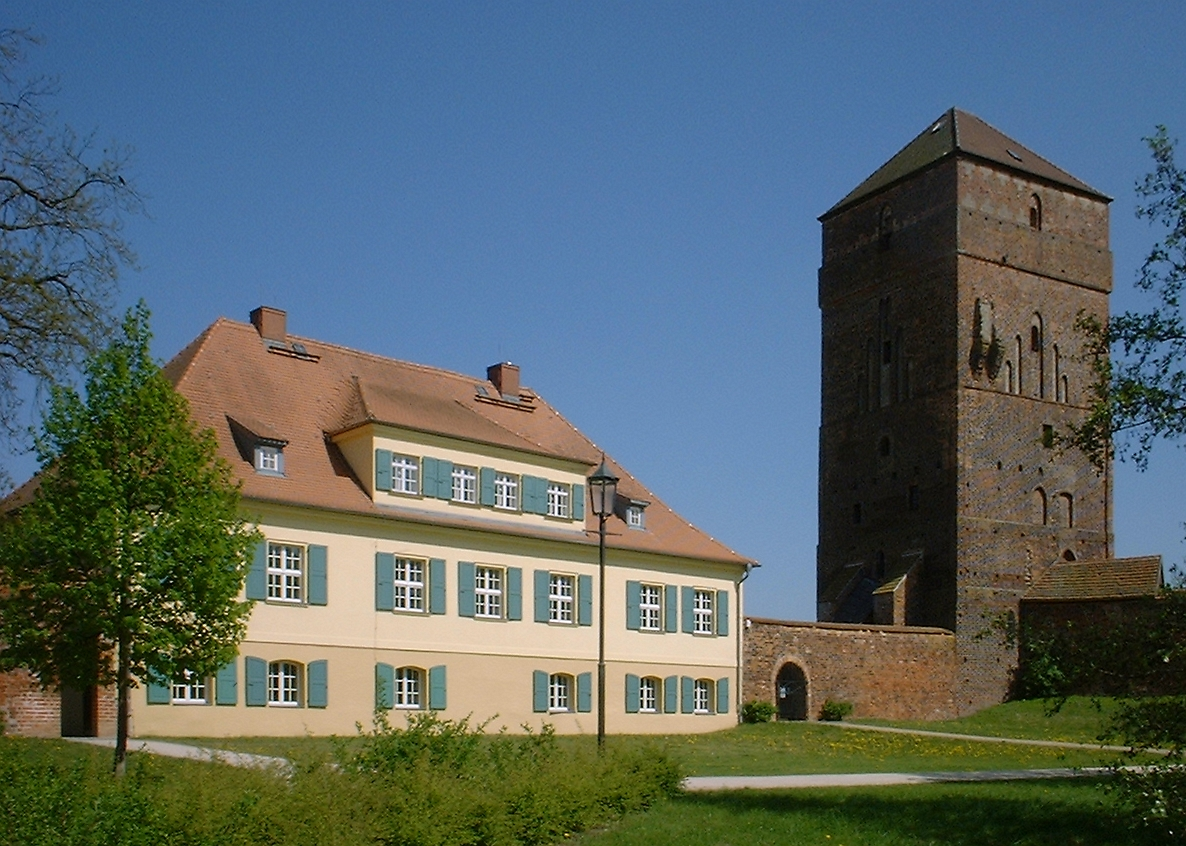 Old Bishop's Palace in Wittstock in Brandenburg, Germany